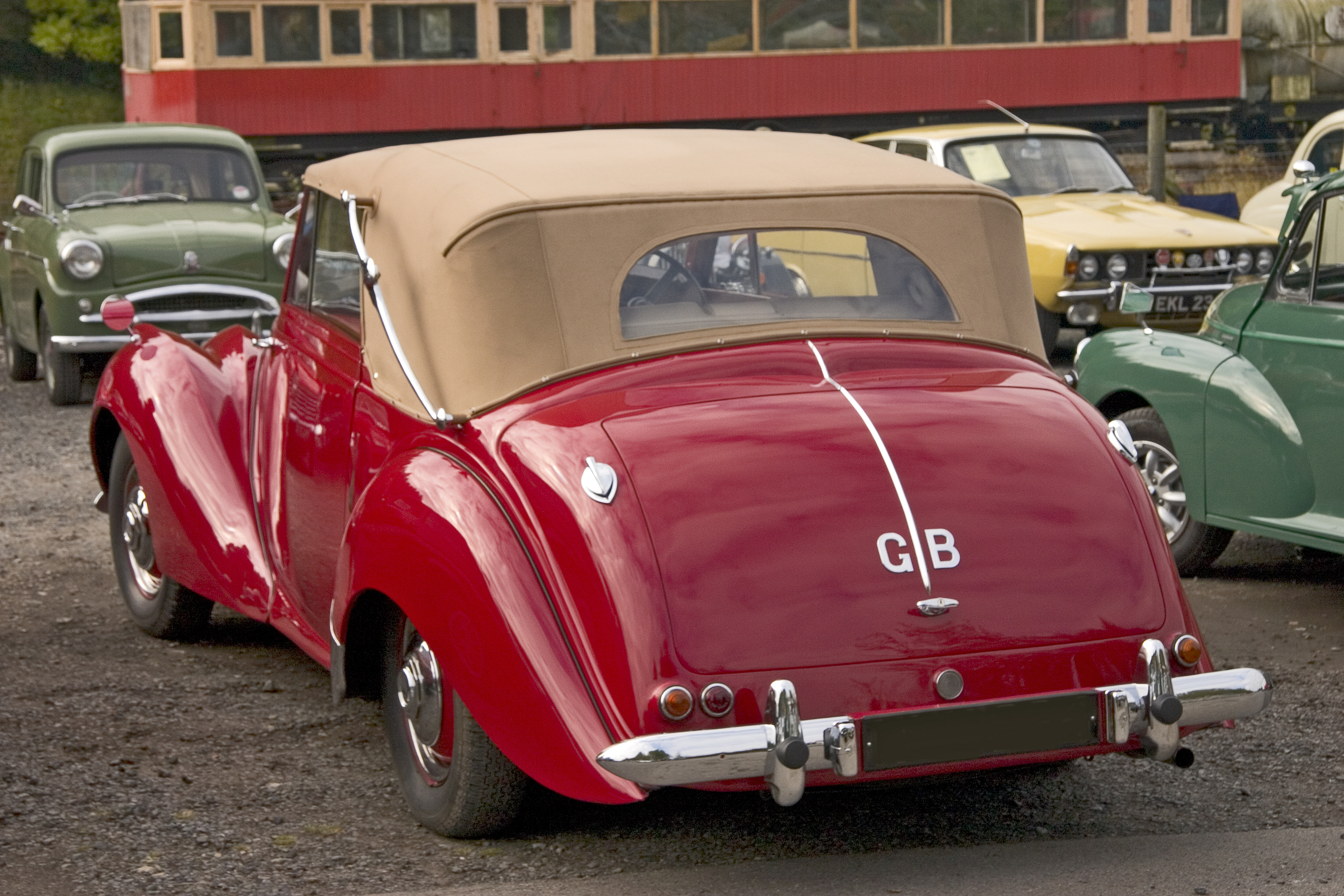 510 Lagonda 2.6litres were sold from 1948 to 1953, and 118 were Drophead Coupes.